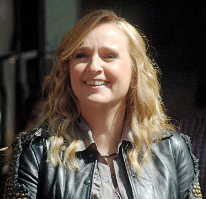 Melissa Etheridge at a ceremony to receive a star on the Hollywood Walk of Fame.